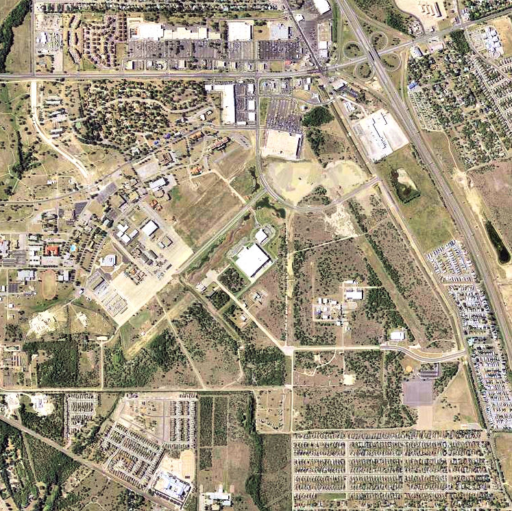 Brooks Air Force Base, Texas